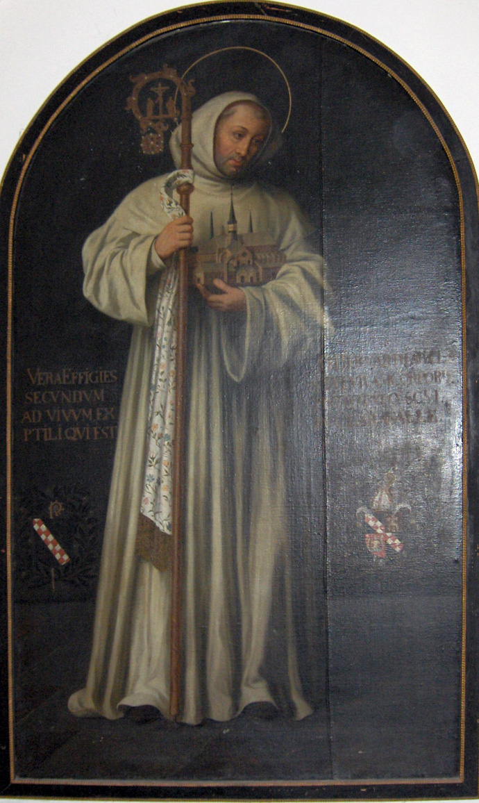 Bernard of Clairvaux, as shown in the church of Heiligenkreuz Abbey near Baden bei Wien, Lower Austria. Portrait (1700) with the true effigy of the Saint by Georg Andreas Wasshuber (1650-1732), (painted after a statue in Clairvaux with the true effigy of the saint)